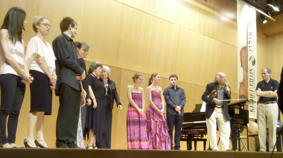 Ivry Gitlis in Keshet Eilon Violin Master course, Summer 2012